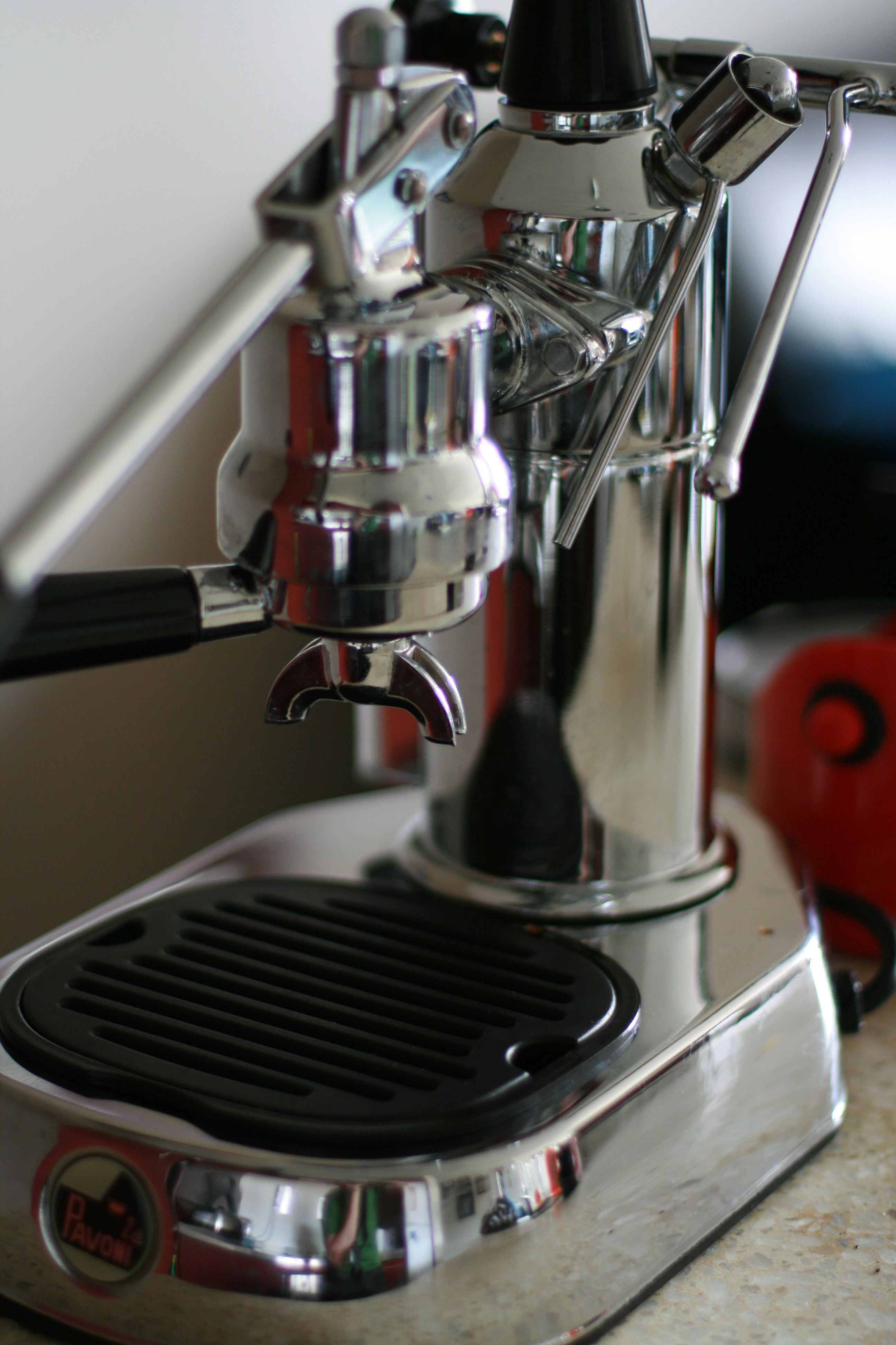 Europiccola - La Pavoni : domestic espresso coffee machine launched on the market in 1961, Italy.